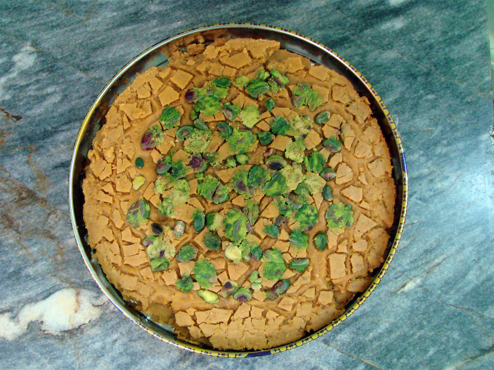 om Province (Persian: استان قم, Ostān-e Qom) is one of the 31 provinces of Iran with 11,237 km², covering 0.89% of the total area in Iran. It is in the north of the country, and its provincial capital is the city of Qom. Acèh: Propinsi Qom nakeuh saboh propinsi nyang na di Iran.